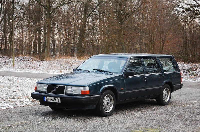 Volvo 945 MY 1993 on Series 740 steel wheels with early Series 240 hub caps / Euroean spec. front / Colour: Teal Green metallic, Code 412